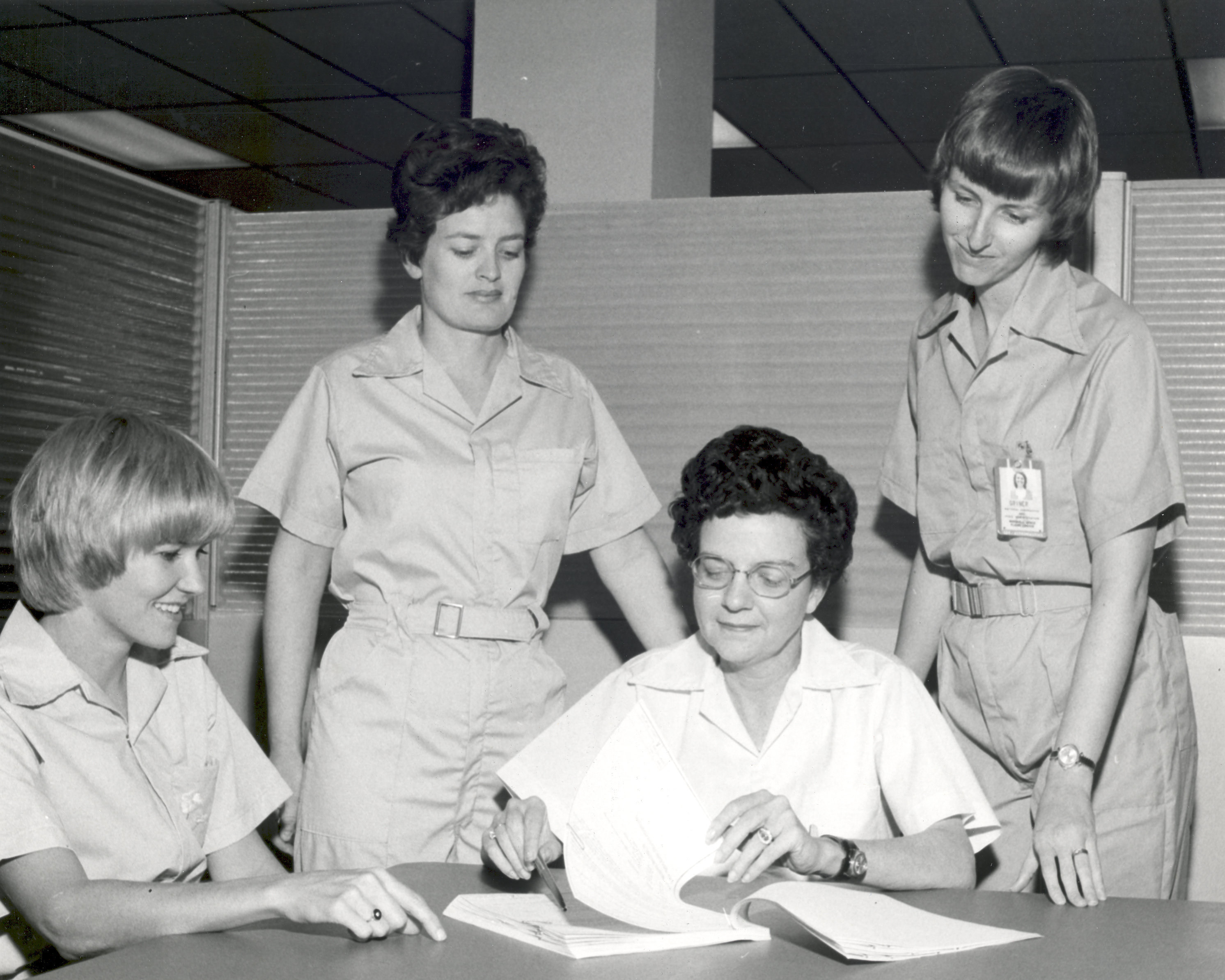 In another first for NASA, an all-female crew of scientific experimenters began a five-day exercise on December 16, 1974, to test the feasibility of experiments that were later tested on the Space Shuttle/Spacelab missions. The experimenters, Dr. Mary H. Johnston (seated, left), Ann F. Whitaker and Carolyn S. Griner (standing, left to right), and the crew chief, Doris Chandler, spent spend eight hours each day of the mission in the Marshall Space Flight Centers General Purpose Laboratory (GPL). They conducted 11 selected experiments in materials science to determine their practical application for Spacelab missions and to identify integration and operational problems that might occur on actual missions. Inside the GPL, the four women worked under conditions simulating, as nearly as practical, those that would exist in a space station in Earth orbit, excepting, of course, weightlessness. Air circulation, temperature, humidity and other factors were carefully controlled. The test was conducted at NASAs Marshall Space Flight Center, Huntsville, AL, where the GPL is part of the centers Concept Verification Test (CVT), a project oriented to reducing future costs of experimentation in space by involving potential experimenters early in the development cycle of their hardware.